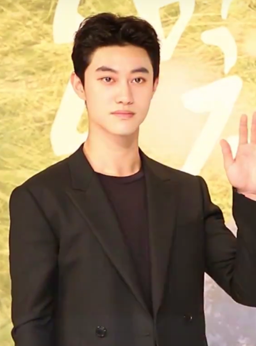 Kwak Dong-yeon at Love in the Moonlight Press Conference on August 18, 2016.